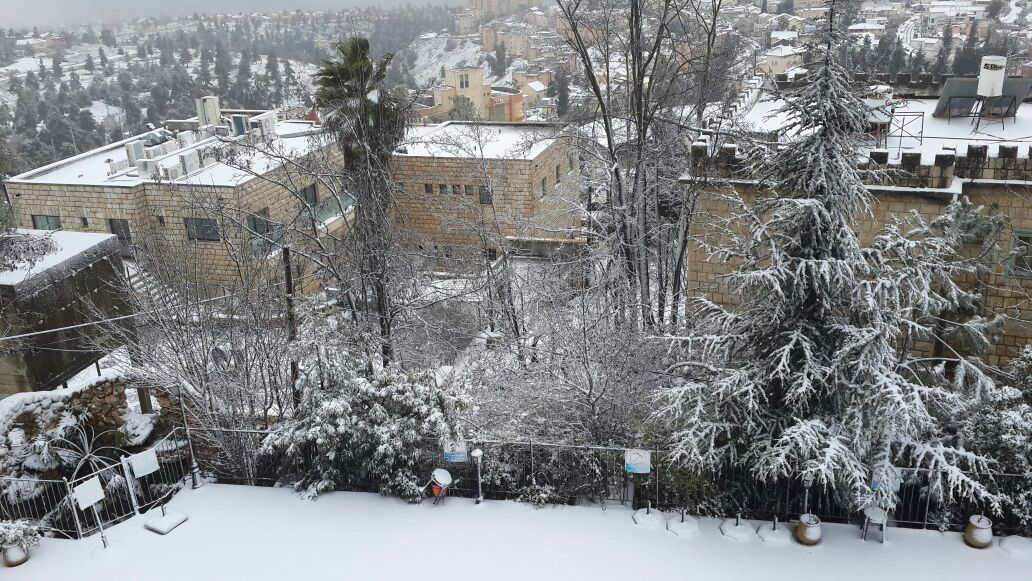 snow in safed